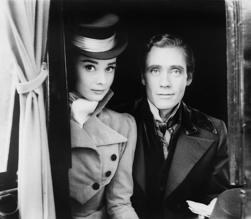 Audrey Hepburn and Mel Ferrer, posed in costume, while filming War and Peace.